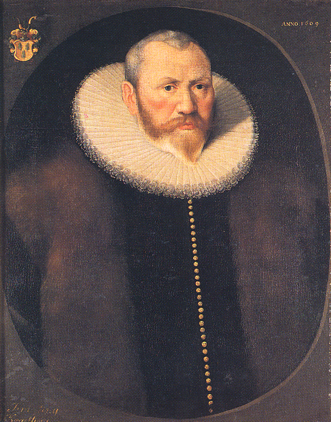 Portrait of the mayor of Bremen (Germany) Heinrich Krefting (1562–1611) from the year 1609.